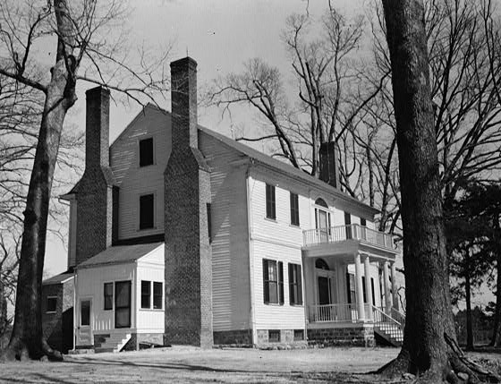 Burnside Plantation, State Route 1335, Williamsboro vicinity (Vance County, North Carolina) - cropped This file comes from the Historic American Buildings Survey (HABS), Historic American Engineering Record (HAER) or Historic American Landscapes Survey (HALS). These are programs of the National Park Service established for the purpose of documenting historic places. Records consist of measured drawings, archival photographs, and written reports. When reusing please credit: Library of Congress, Prints & Photographs Division, NC,91-WILBO.V,1-2 This tag does not indicate the copyright status of the attached work. A normal copyright tag is still required. See Commons:Licensing for more information. This work is in the public domain in the United States because it is a work prepared by an officer or employee of the United States Government as part of that person’s official duties under the terms of Title 17, Chapter 1, Section 105 of the US Code. See Copyright. Note: This only applies to original works of the Federal Government and not to the work of any individual U.S. state, territory, commonwealth, county, municipality, or any other subdivision. This template also does not apply to postage stamp designs published by the United States Postal Service since 1978. (See § 313.6(C)(1) of Compendium of U.S. Copyright Office Practices). It also does not apply to certain US coins; see The US Mint Terms of Use. This file has been identified as being free of known restrictions under copyright law, including all related and neighboring rights.